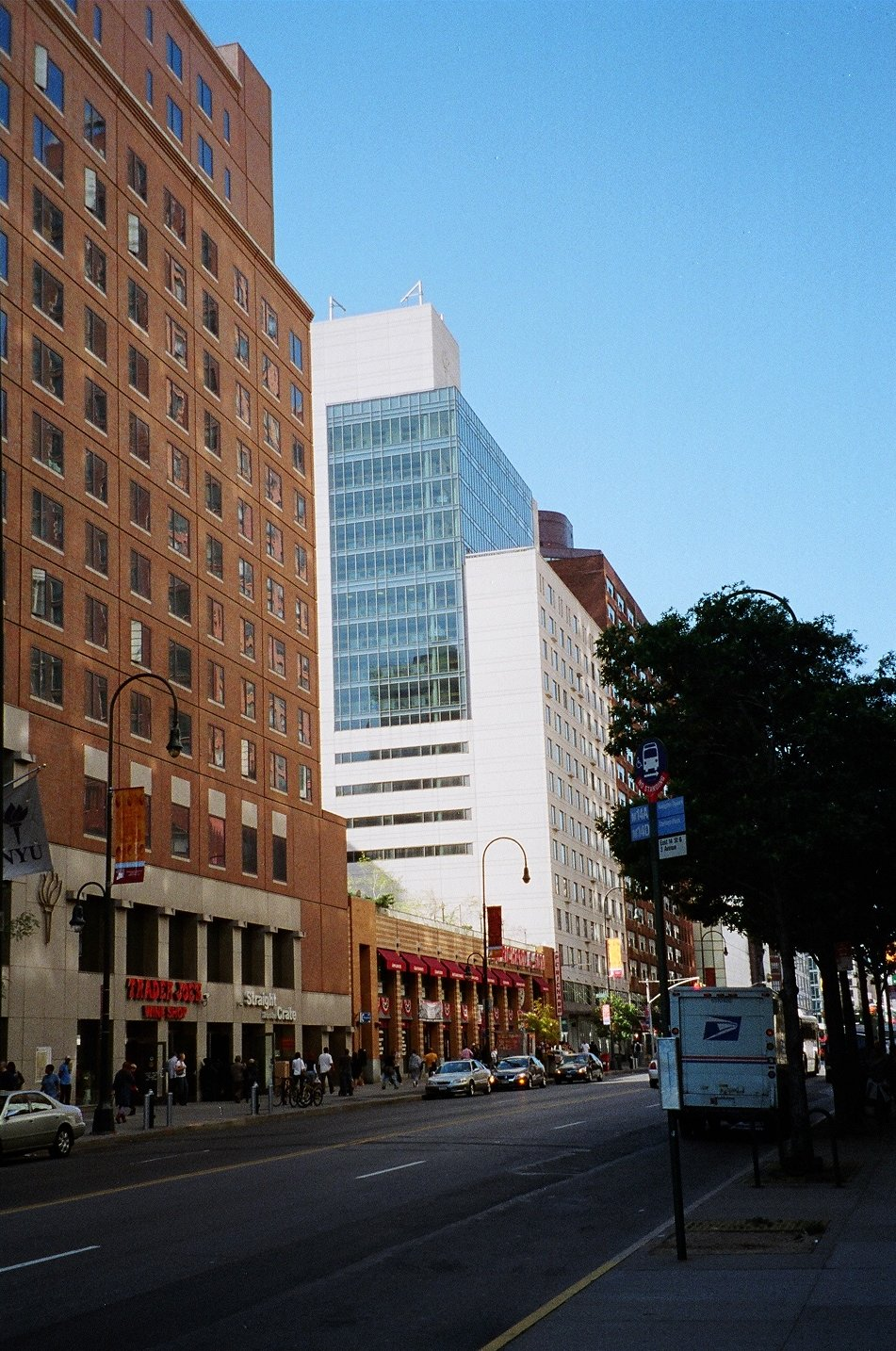 The white building is the NYU dorm University Hall, built on the site of the Luchow's Restaurant in 1998. On the left is Palladium Hall, another NYU dorm, built on the site of the Palladium dance club in 1999.